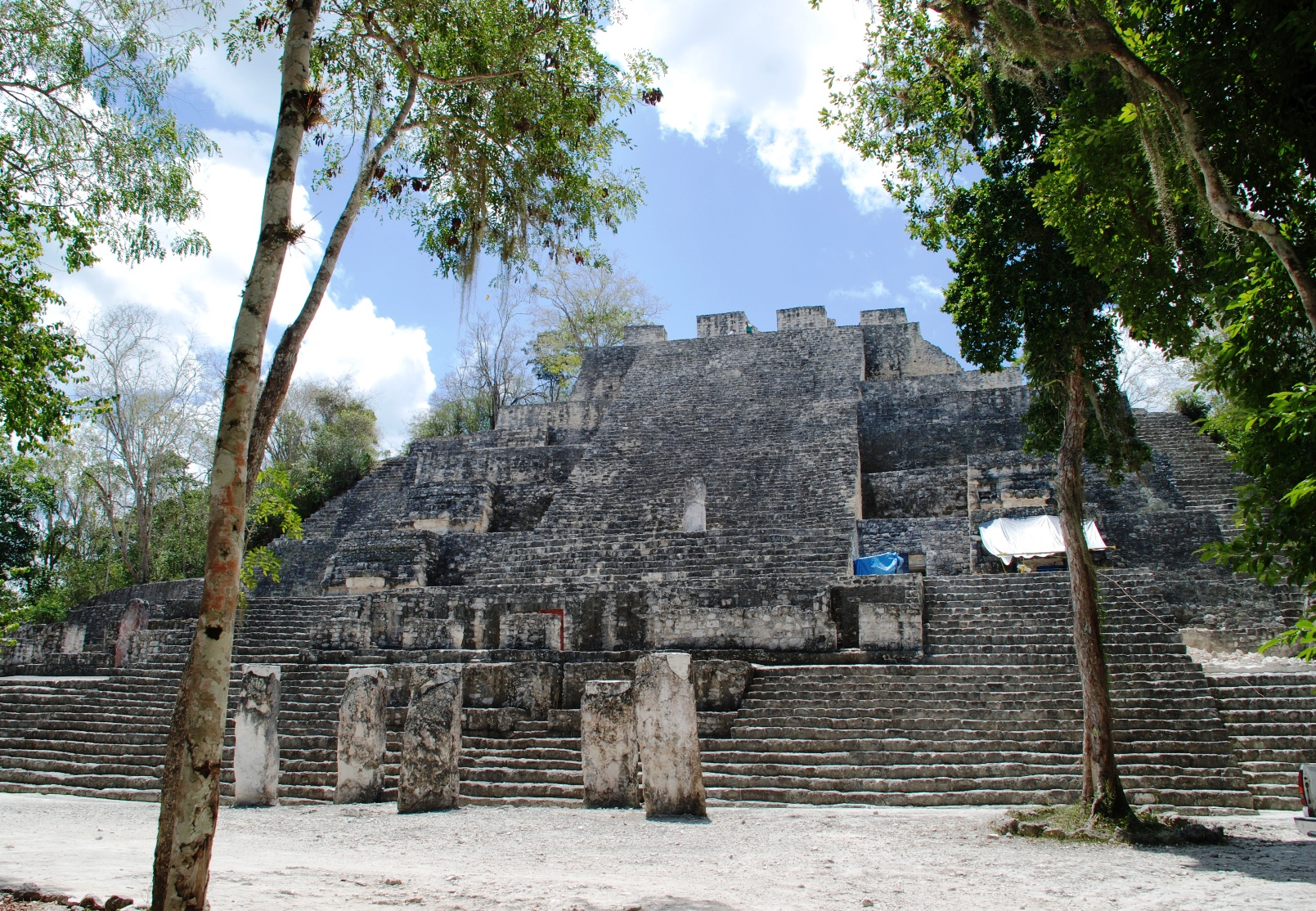 Structure 2 in Calakmul